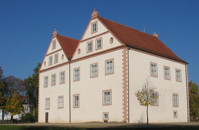 Schloss Königs Wusterhausen. It is a renaissance-castle in Königs Wusterhausen, a town in the north of the district Dahme-Spreewald in Brandenburg, Germany. The castle was built in the 16th century and was used by Frederick William I of Prussia as hunting lodge.